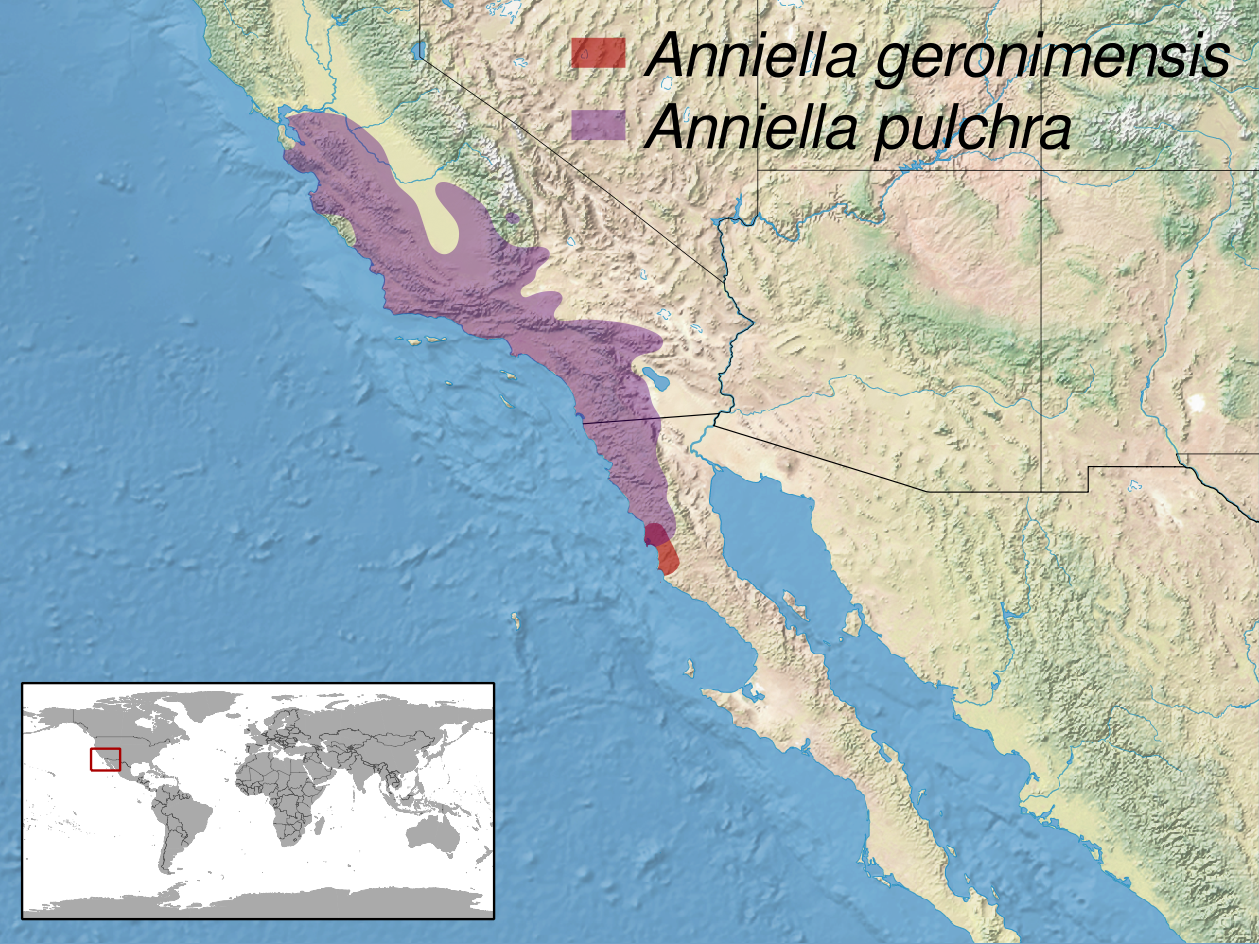 geographic distribution of Anniella sp. Anniella geronimensis Native: Mexico Anniella pulchra Native: Mexico; United States